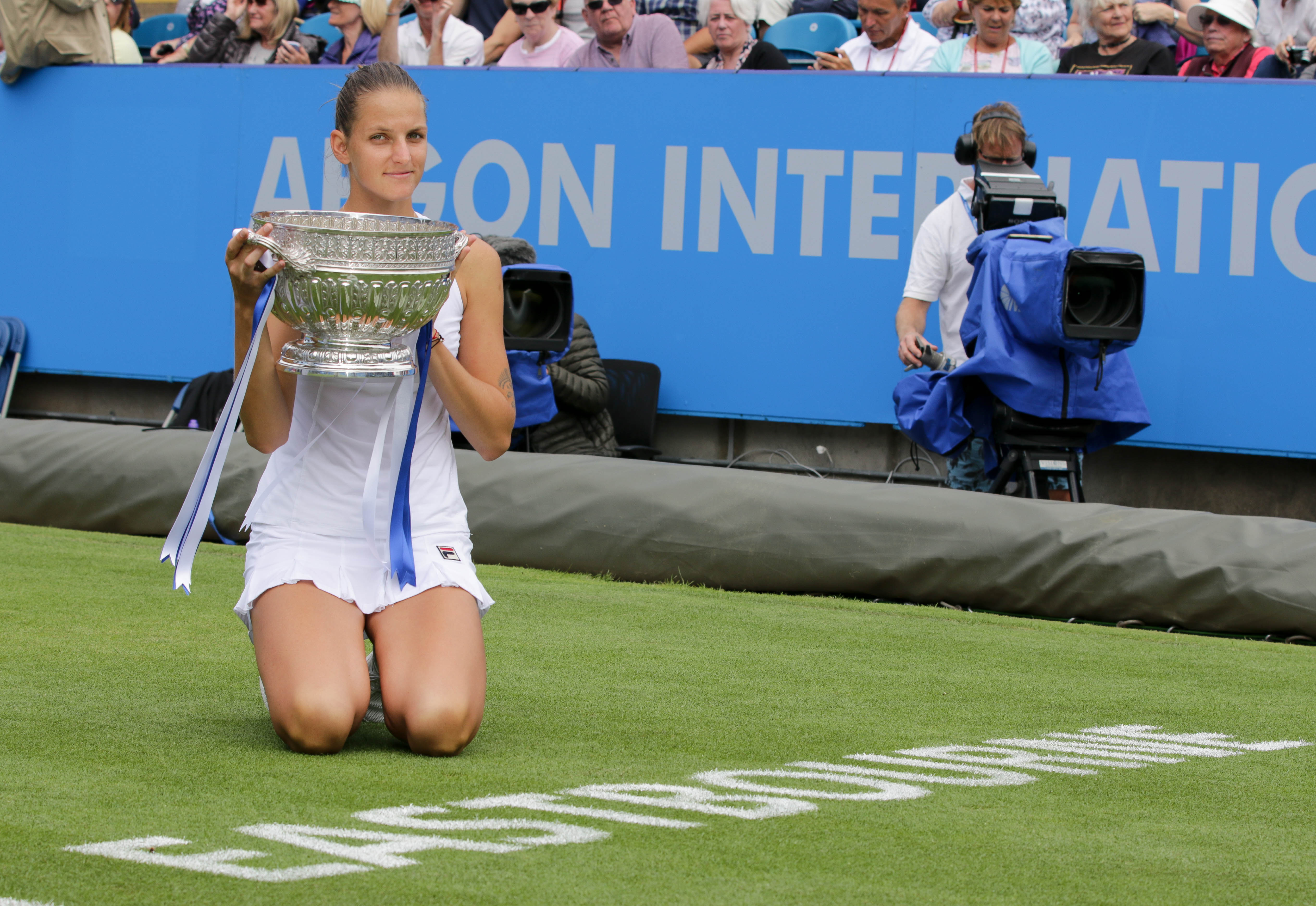 Aegon International Women's Final 2017 Pliscova v Wozniacki-969.jpg